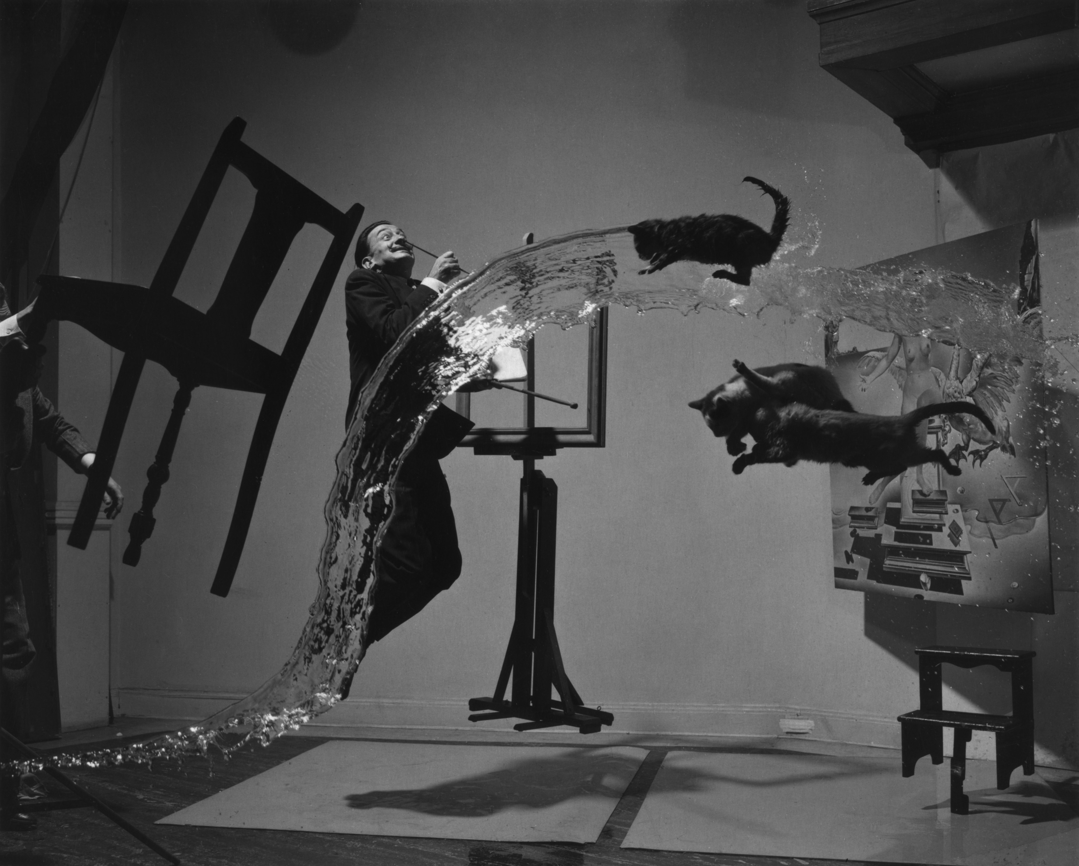 In 1941, American photographer Philippe Halsman met the surrealist artist Salvador Dalí in New York City and they began to collaborate in the late 1940s. The 1948 work Dali Atomicus explores the idea of suspension, depicting three cats flying, water thrown from a bucket, an easel, a footstool and Salvador Dalí all seemingly suspended in mid-air. The title of the photograph is a reference to Dalí's work Leda Atomica (at that which can be seen in the right of the photograph behind the two cats.) Halsman reported that it took 28 attempts to be satisfied with the result. The frame on the easel is still empty. The copyright for this photo was registered with the U.S. Copyright Office but according to the U.S. Library of Congress was not renewed, putting it in the public domain in the United States and countries which adopted the rule of the shorter term.